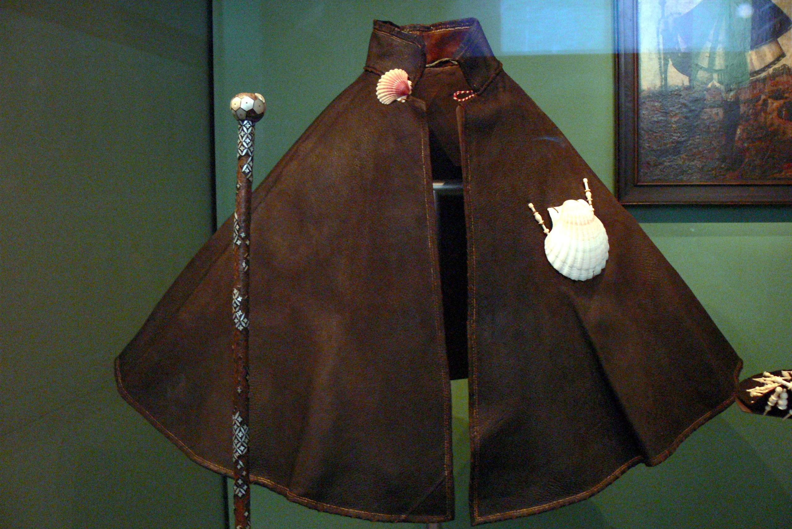 German National Museum (Nuremberg/Germany). Pilgrim´s cloak and staff (1571) of Stephan Praun III from Nuremberg, made in Spain.